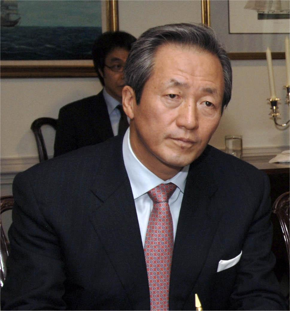 Leader of the transition team for South Korean President-elect Lee Myung Bak South Korean National Assemblyman Chung Mong-joon (left) meets with Secretary of Defense Robert M. Gates (right) in the Pentagon on Jan. 23, 2008. Chung, Gates and members of their senior staffs are discussing a broad range of bilateral issues of particular interest to the incoming government. Other members of the delegation include: (left to right from Chung) Advisor to the Special Envoy Han Sung Joon, Advisor Foreign Relations Division Kim woo Sand and South Korean Defense Attaché Maj. Gen. Dae Young.